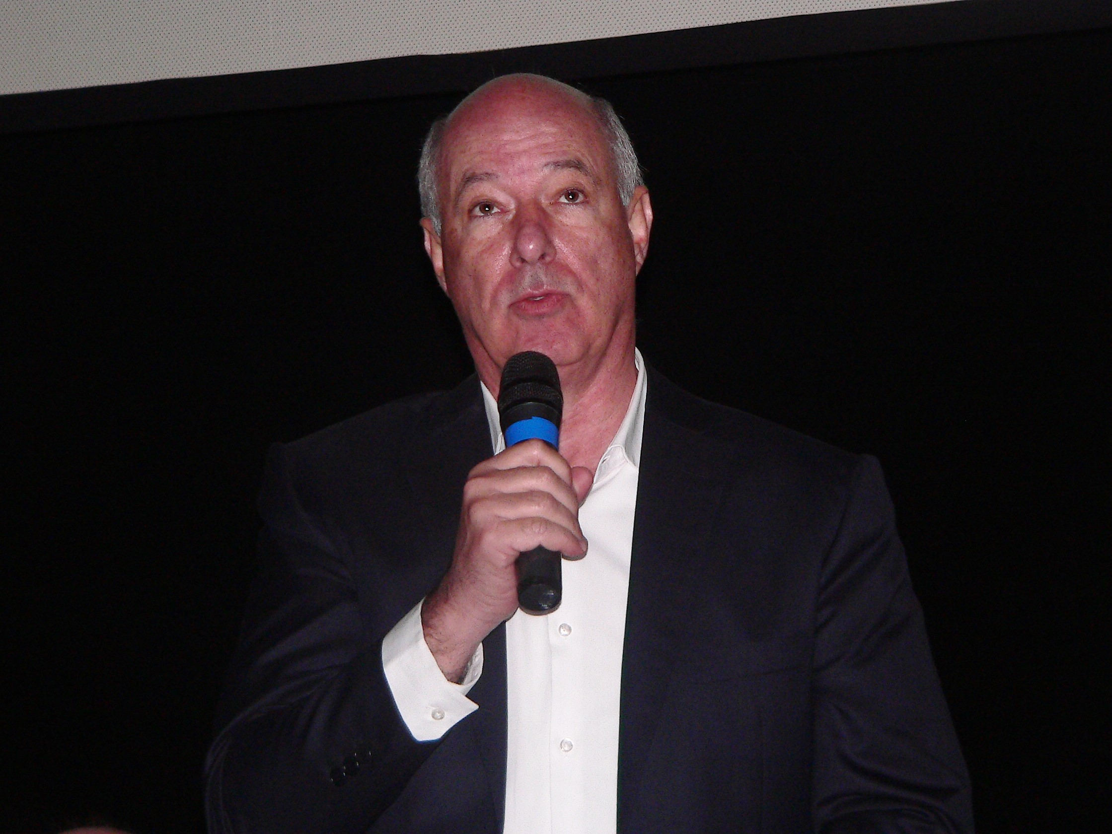 Brazilian federal deputy Herculano Passos (MDB) in 2018 delivering a speech at the Ação Municipalista event in Cotia, São Paulo. Português do Brasil: O deputado federal brasileiro Herculano Passos (MDB) em 2018 discursando no evento Ação Municipalista em Cotia, São Paulo.